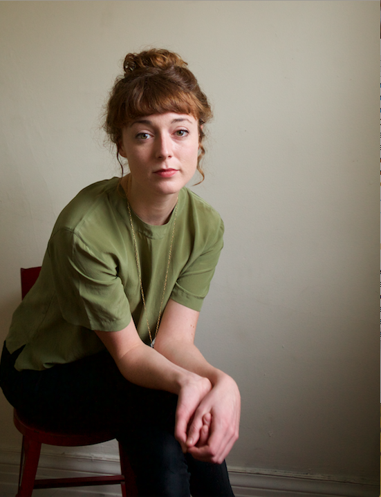 Adelind Horan, actor